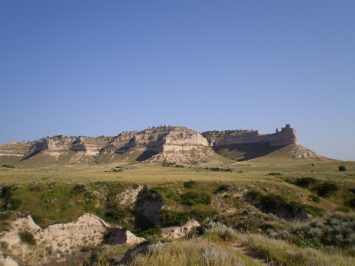 Scotts Bluff National Monument